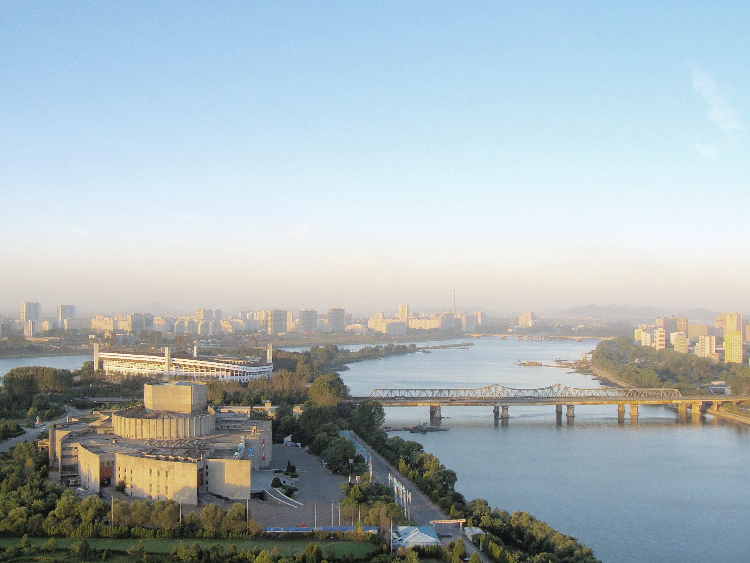 Yanggakdo, an island on the Taedong river which bisects the city, is effectively a prison island of fun. There's the Yanggakdo Hotel, one of the largest working hotels in the city, the Yanggakdo Stadium, the International Friendship Cinema and a small golf course. Foreigners are allowed to roam aroud the island freely but they are not allowed to cross the bridge linking it to the rest of Pyongyang.